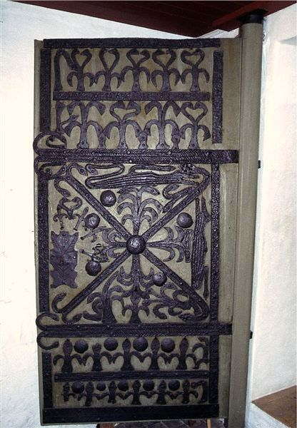 Fårevejle Kirke (church) in Odsherred Kommune. From apr. 1100